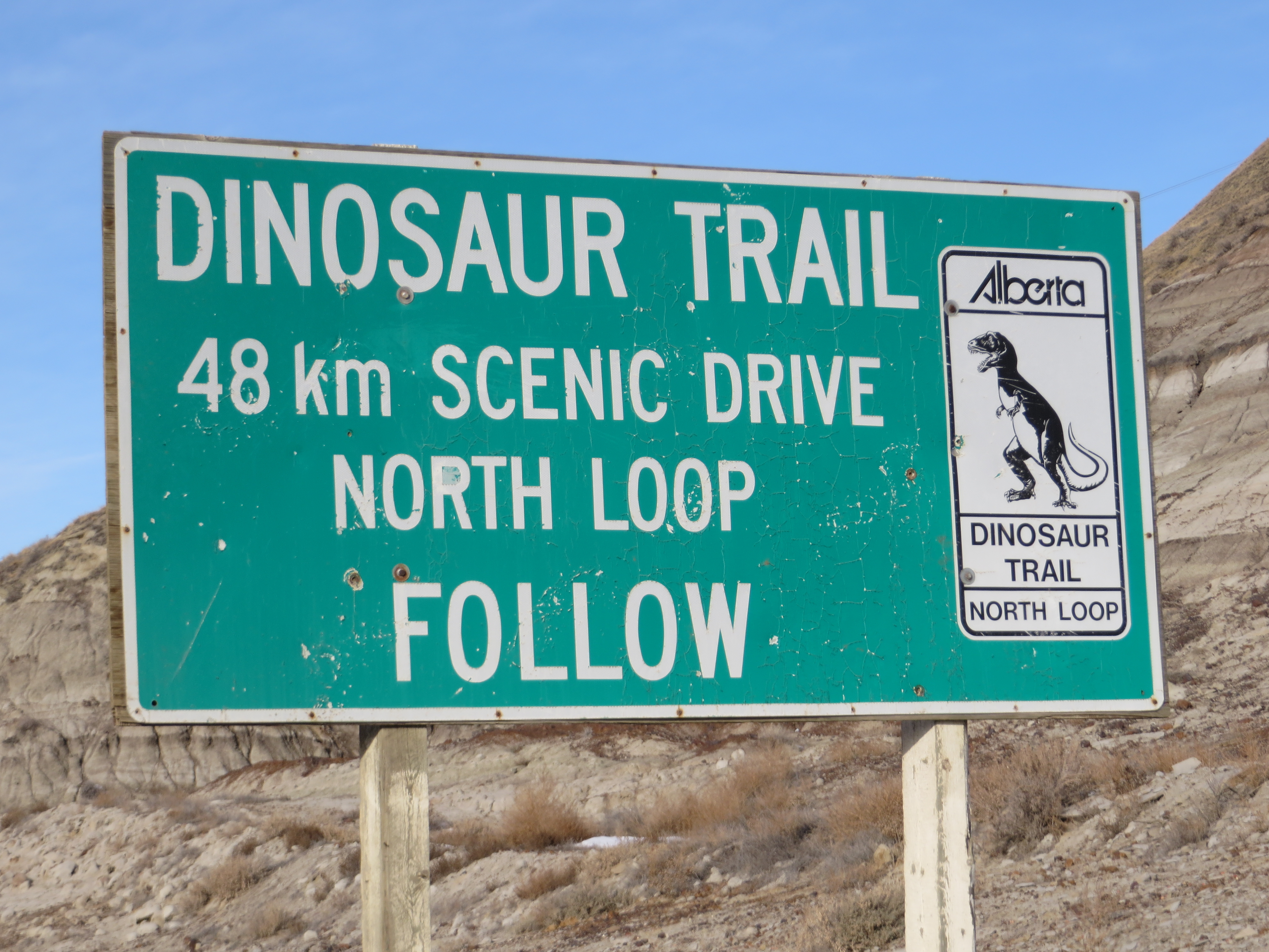 This is a sign marking the scenic Dinosaur Trail near Drumheller, Alberta.